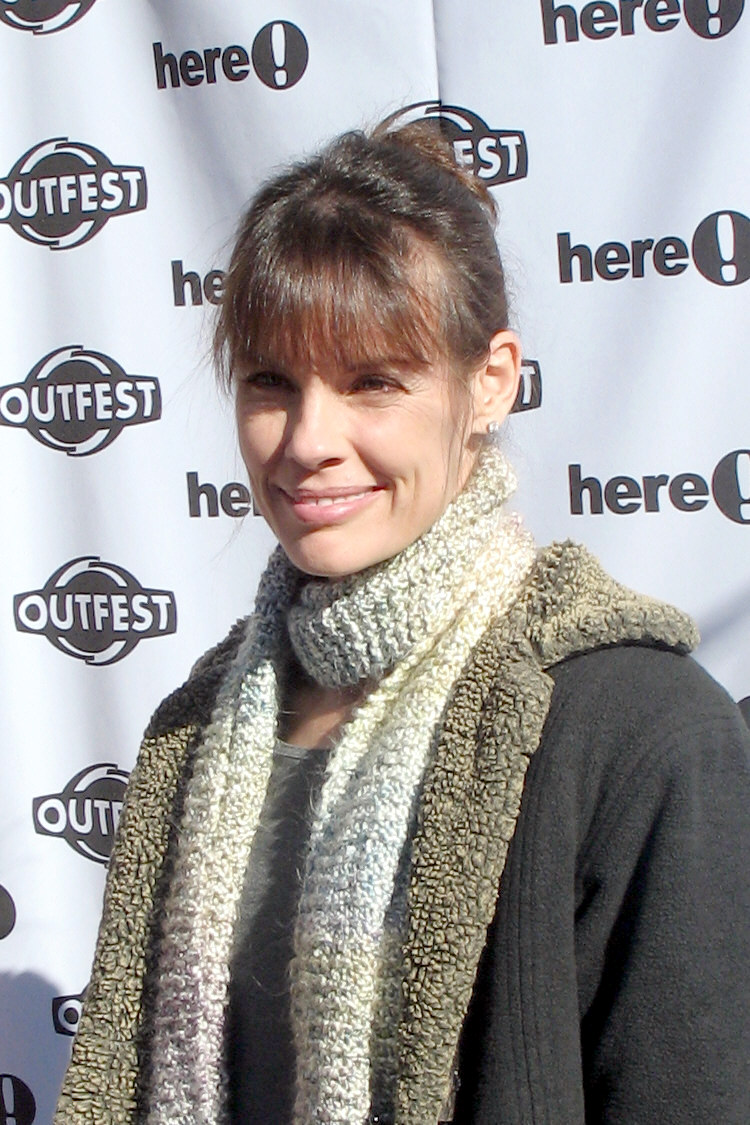 Alexandra Paul at the Sundance film festival